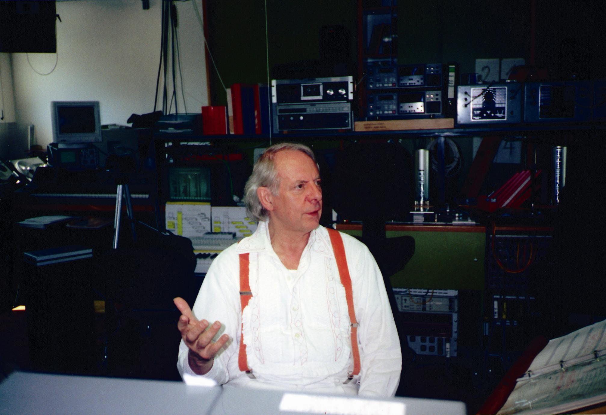 Karlheinz Stockhausen in the WDR studio in 1996. (Photo: Kathinka Pasveer)